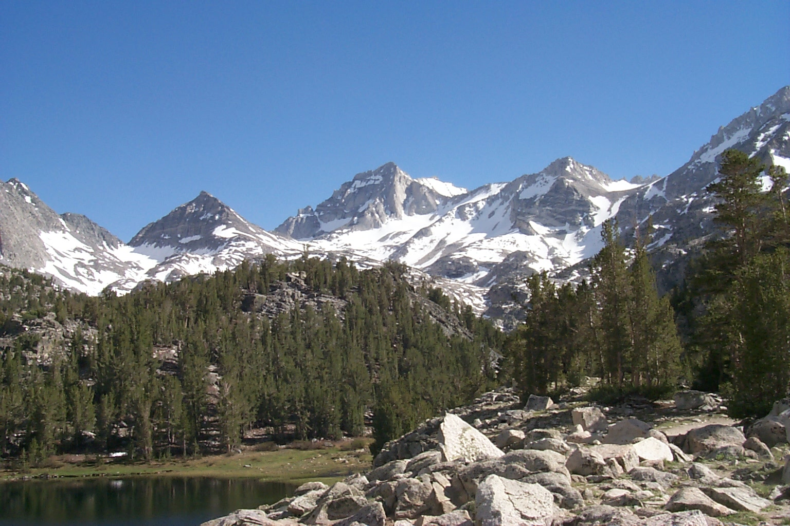 Little Lakes Valley, Eastern Sierra, California, United States